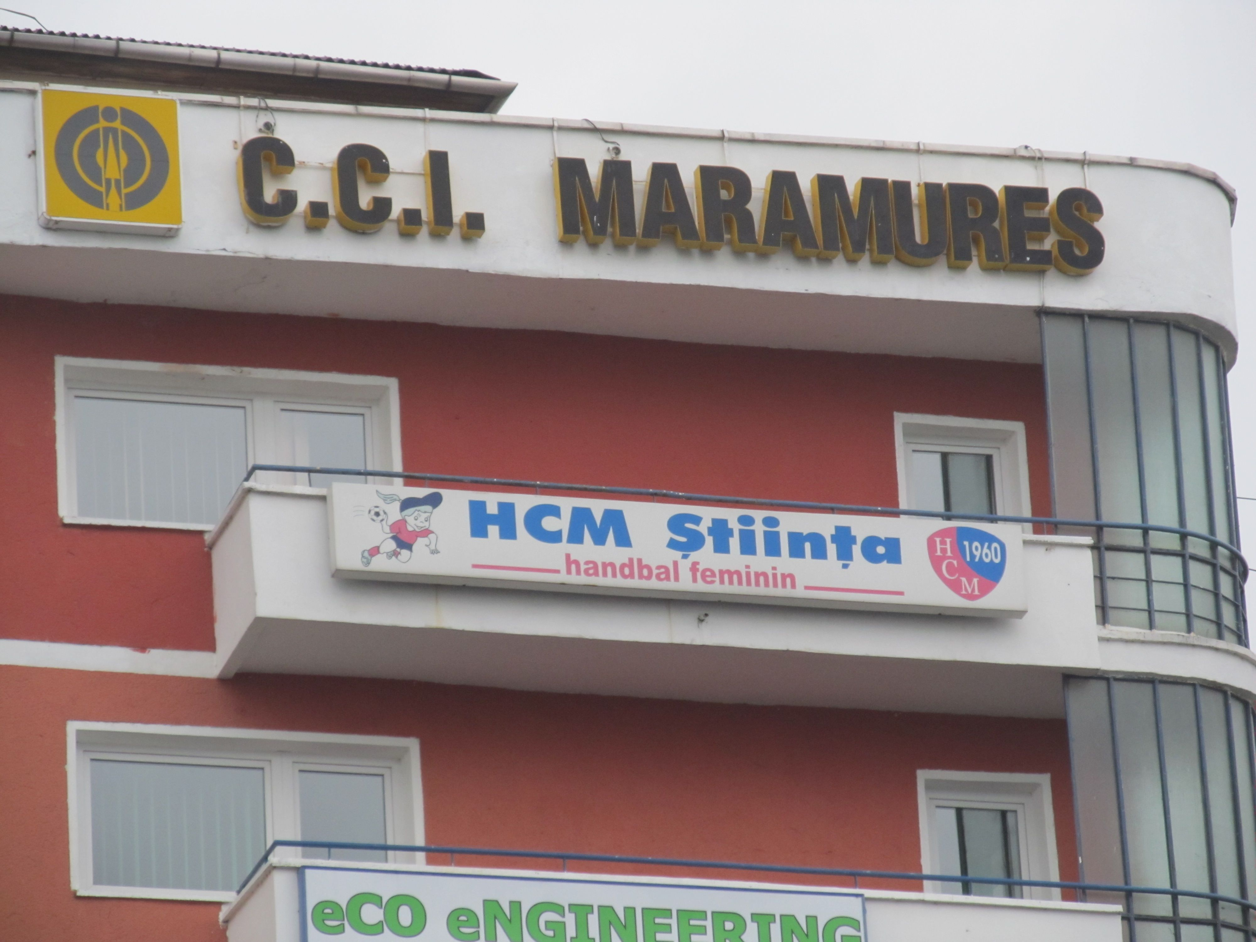 Building on 16th Unirii Boulevard, Baia Mare, Romania, where the offices of women's handball club HCM Baia Mare are located